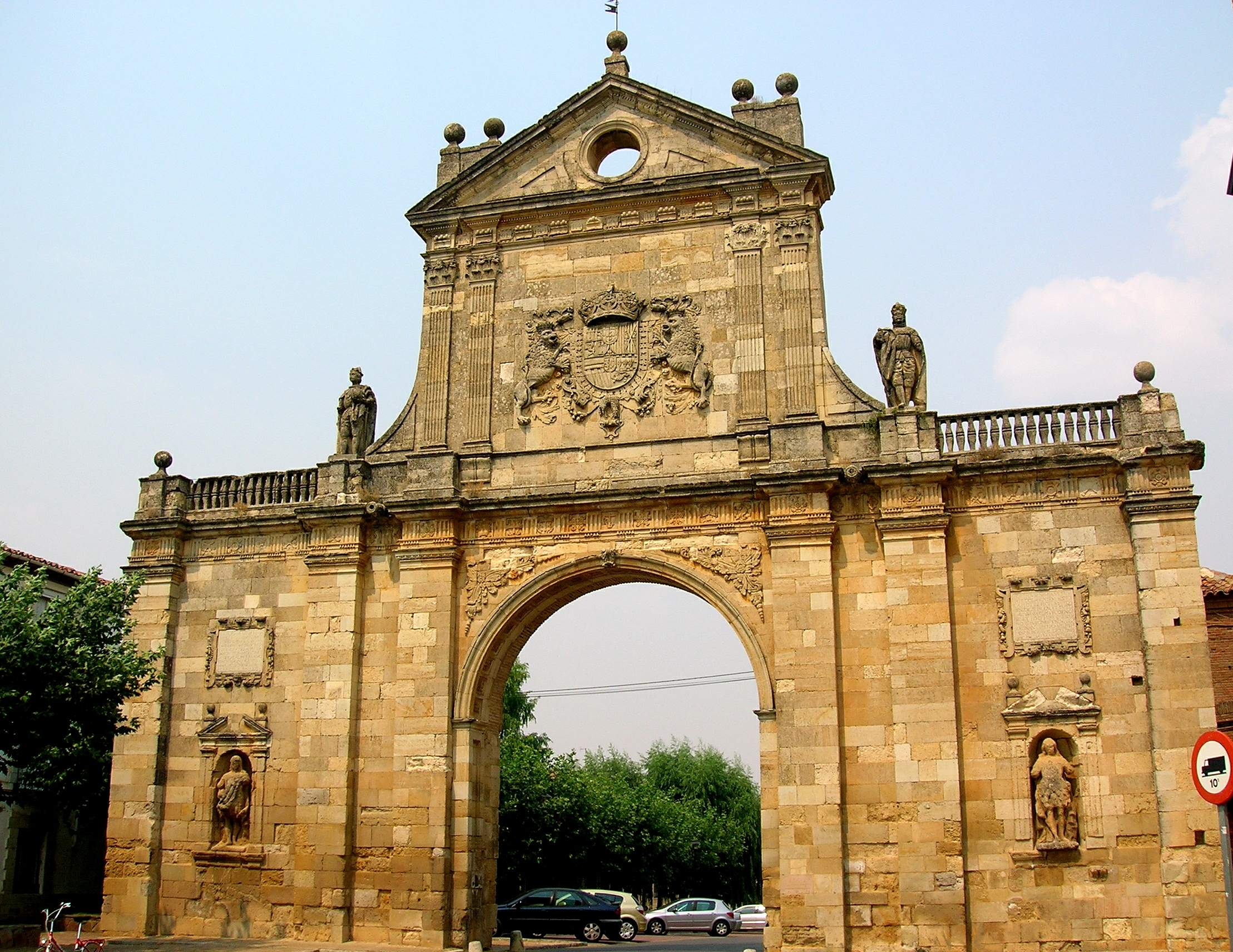 Arch of San Benito (1662), Sahagún, León province, Spain.